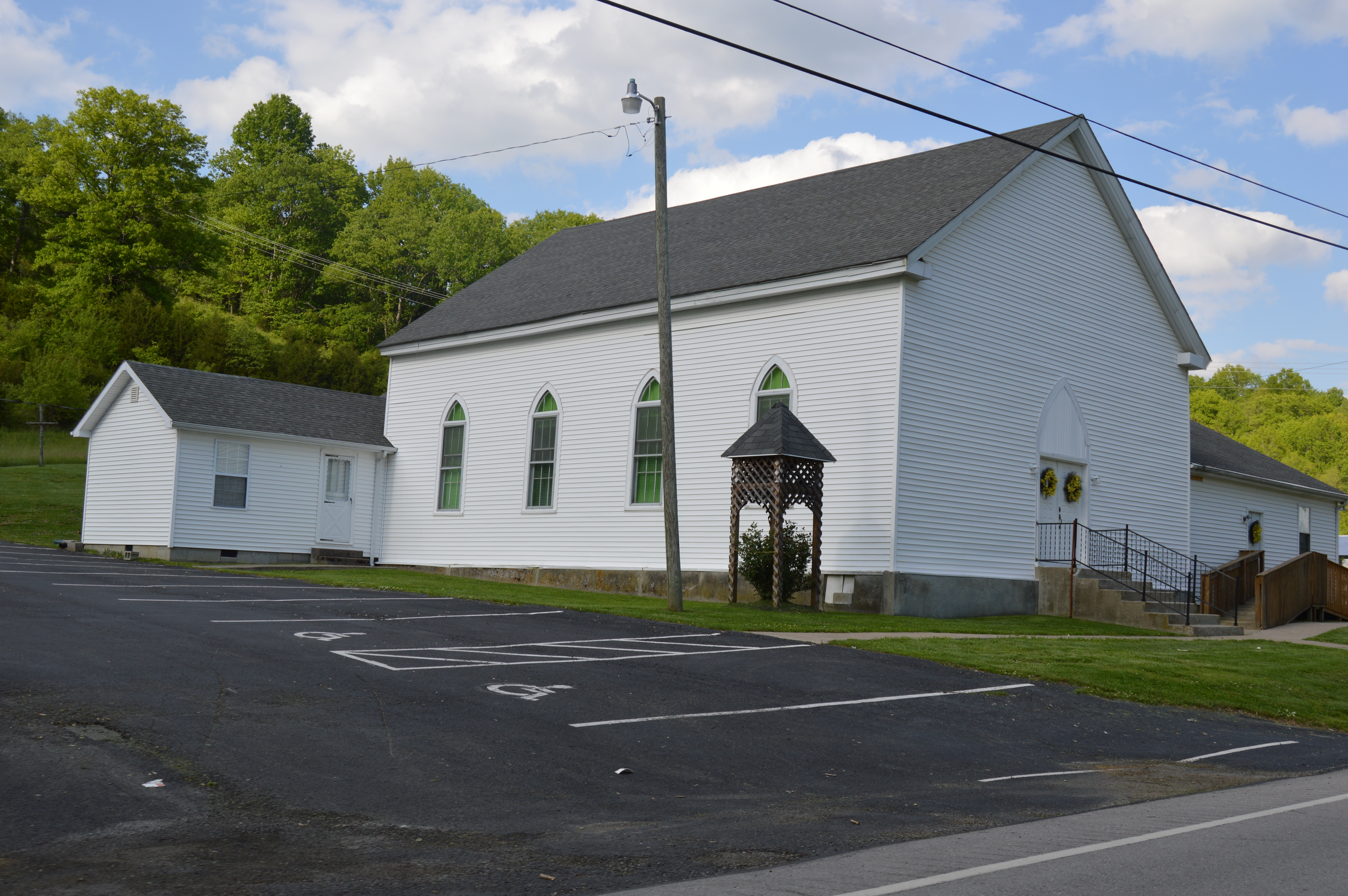 Front and western side of the Glensboro Baptist Church, located along Kentucky Route 44 at Glensboro in Anderson County, Kentucky, United States.